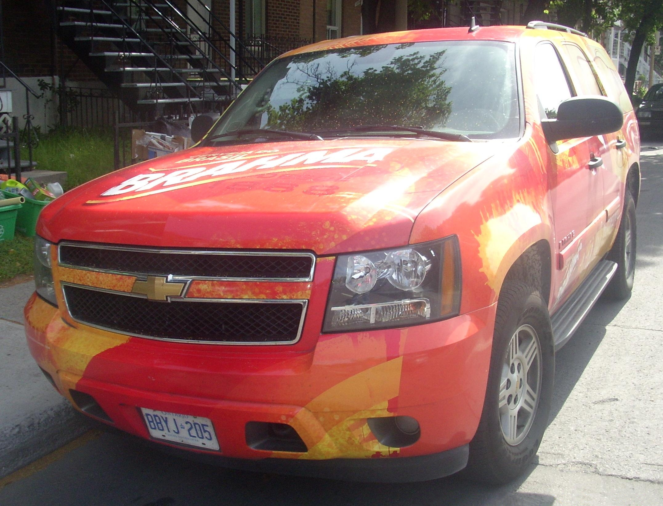 2007-present Chevrolet Tahoe photographed in Montreal, Quebec, Canada.